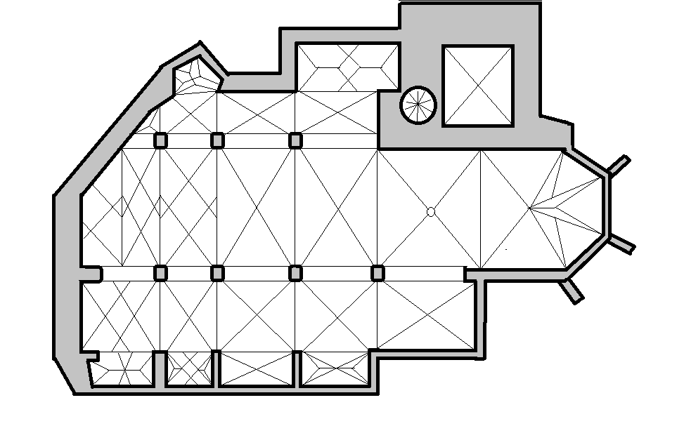 A floor-plan of the City Church in Biel. Based on the drawing from Old City of Biel